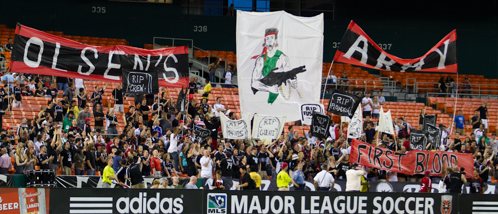 D.C. United supporter group, La Barra Brava display a tifo supporting head coach Ben Olsen during a regular season match against the FC Dallas on August 14, 2010 at RFK Stadium in Washington, D.C..